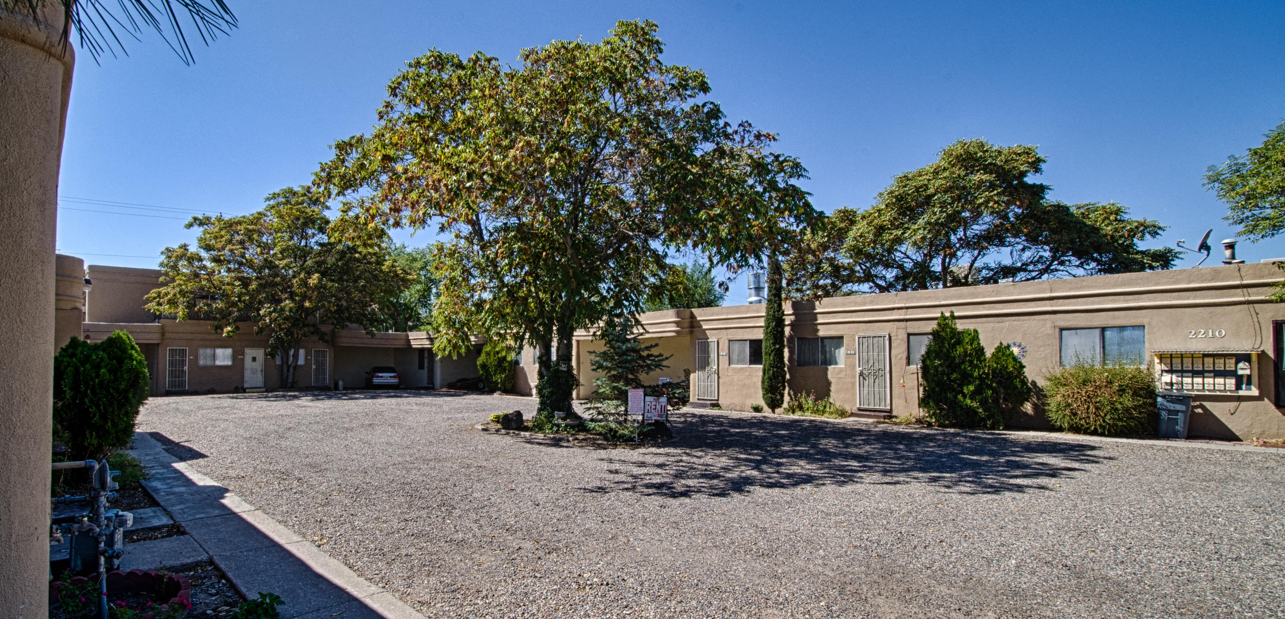 This used to be one of the many motor courts that sprung up along Route 66. This one is on Central Avenue in Albuquerque. It's not being used as apartments.